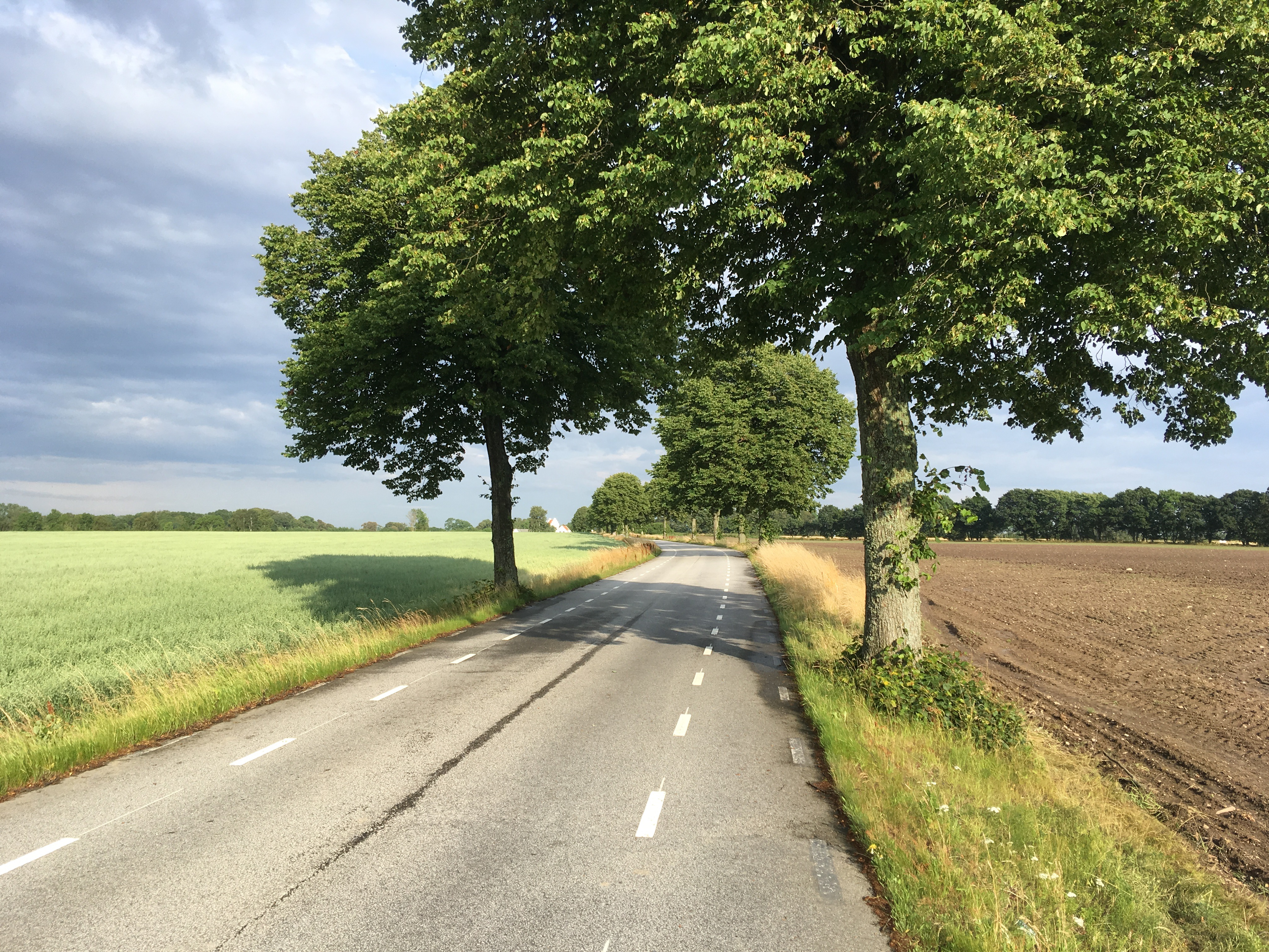 Swedish "bygdeväg", Danish "2-minus-1-vej", a type of road with broader shoulders for bicyclists and pedestrians, and a narrower lane for cars. Near Allerum, municipality of Helsingborg, Sweden.